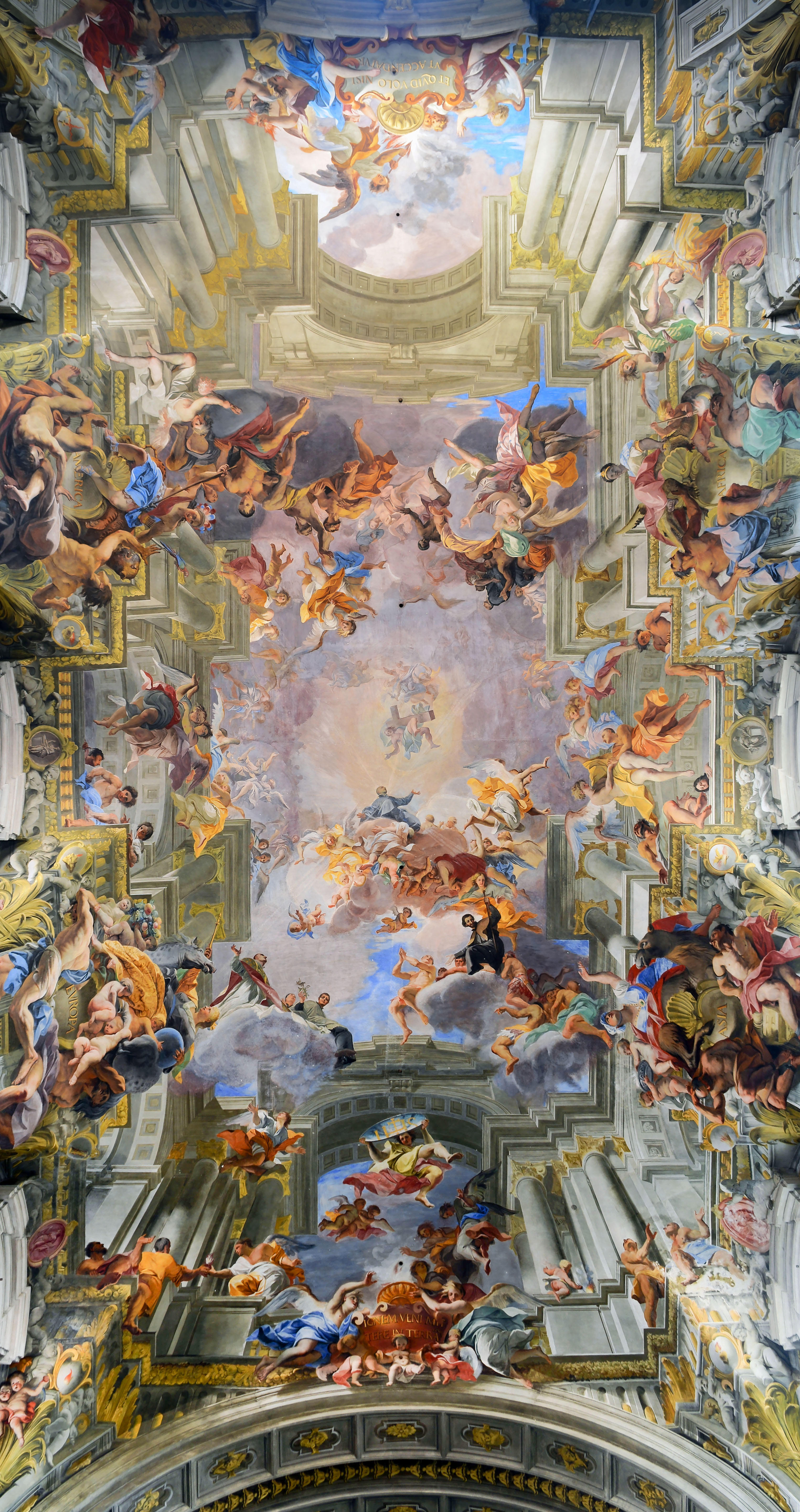 Triumph of St. Ignatius of Loyola, ceiling fresco by Andrea Pozzo, church Sant'Ignazio, Rome (HDR photo)